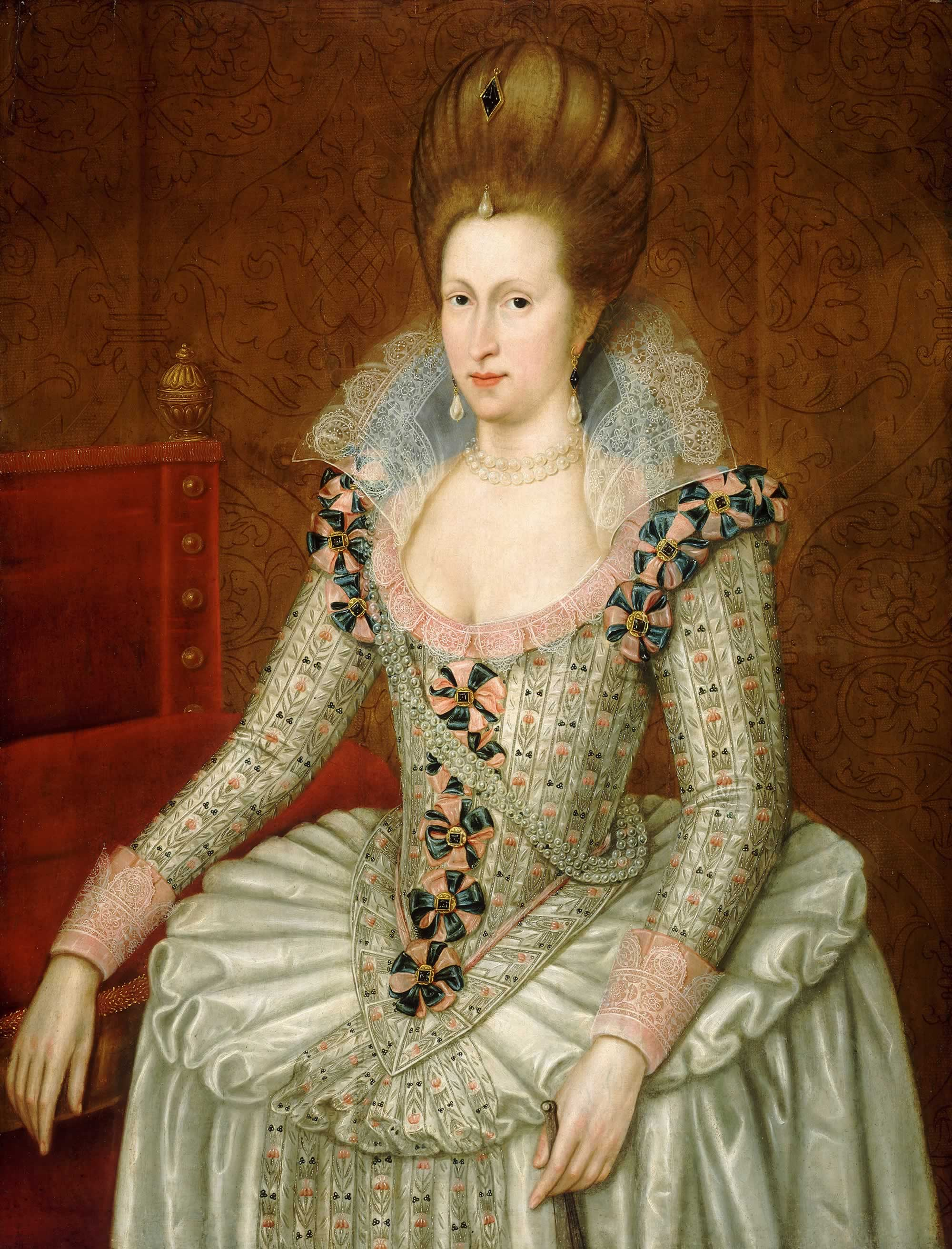 Portrait of Anne of Denmark; oil on panel, National Maritime Museum, London